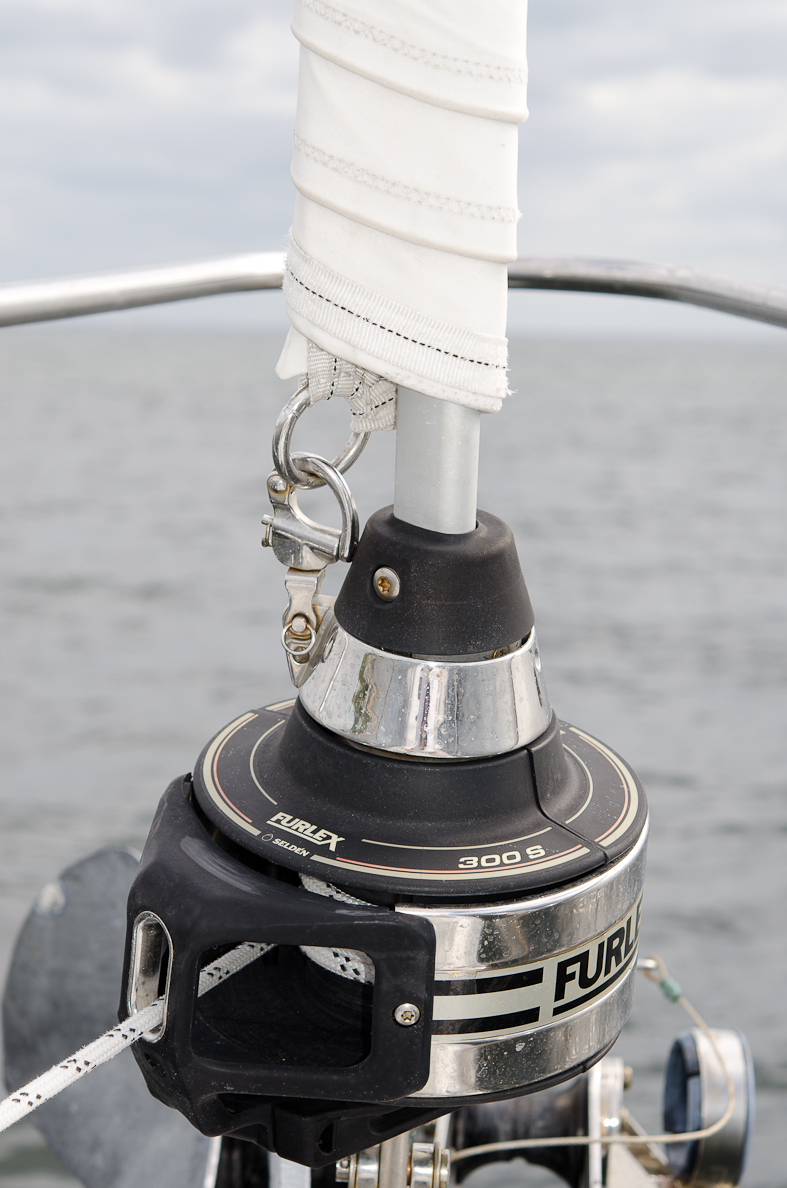 jib rollerfurler (detail)